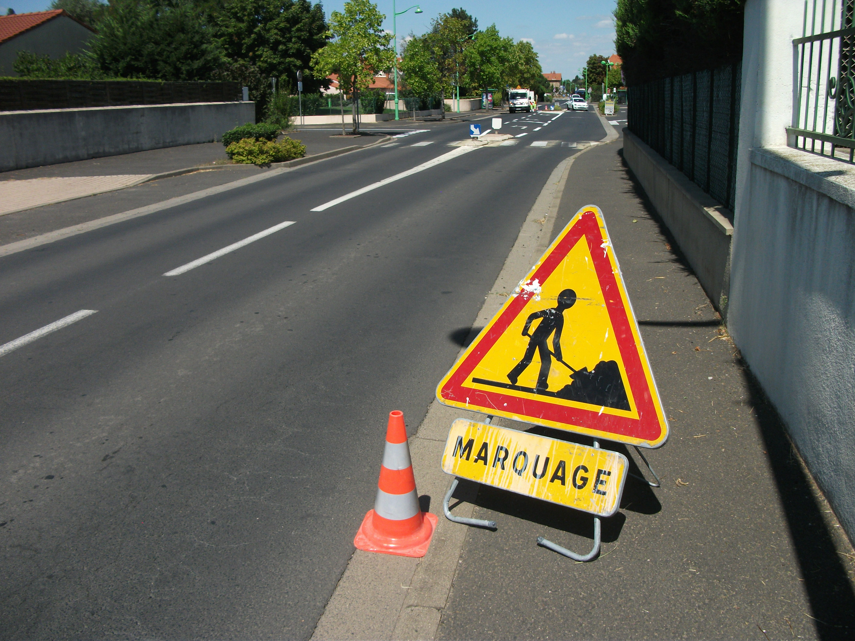 Roadworks (markings) on departmental road 225 in Longues (commune of Vic-le-Comte) [8706]